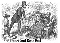 Jasper harassing Rosa Bud in The Mystery of Edwin Drood.